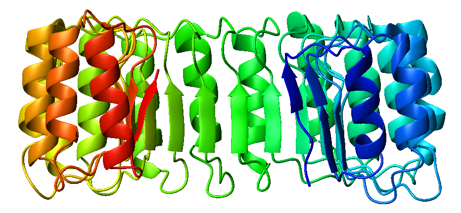 Side view of ribbon diagram of ribonuclease inhibitor (PDB accession code 2BNH).